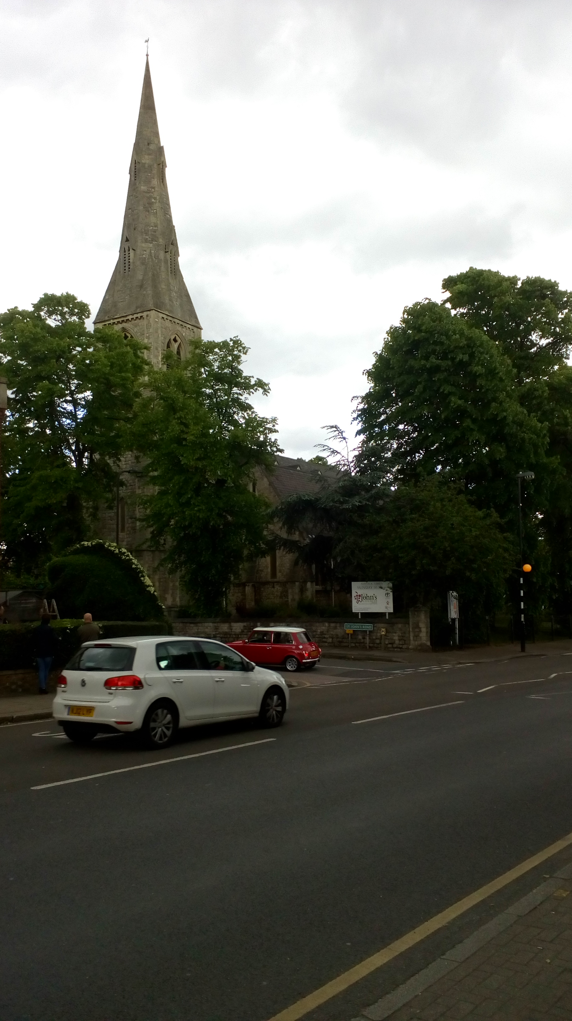 Parish church of St John the Evangelist, High Street, Penge, London SE20, seen from the west